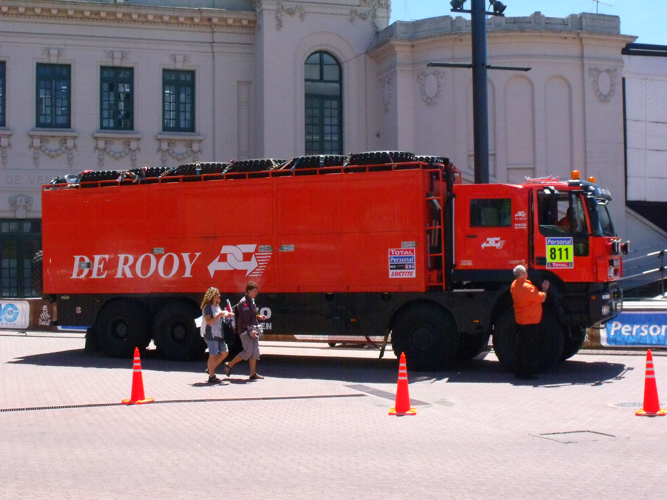 Support Truck Iveco at Buenos Aires - Dakar 2010.